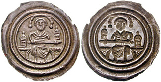 GERMANY, Anhalt. Bernhard von Sachsen. 1170-1212. AR Bracteate Pfennig (0.58 gm). Wittenberg mint. Prince seated right, holding sword; towers behind / Incuse of obverse. Bonhoff 871; Thormann 199. Toned EF, edge slightly irregular.